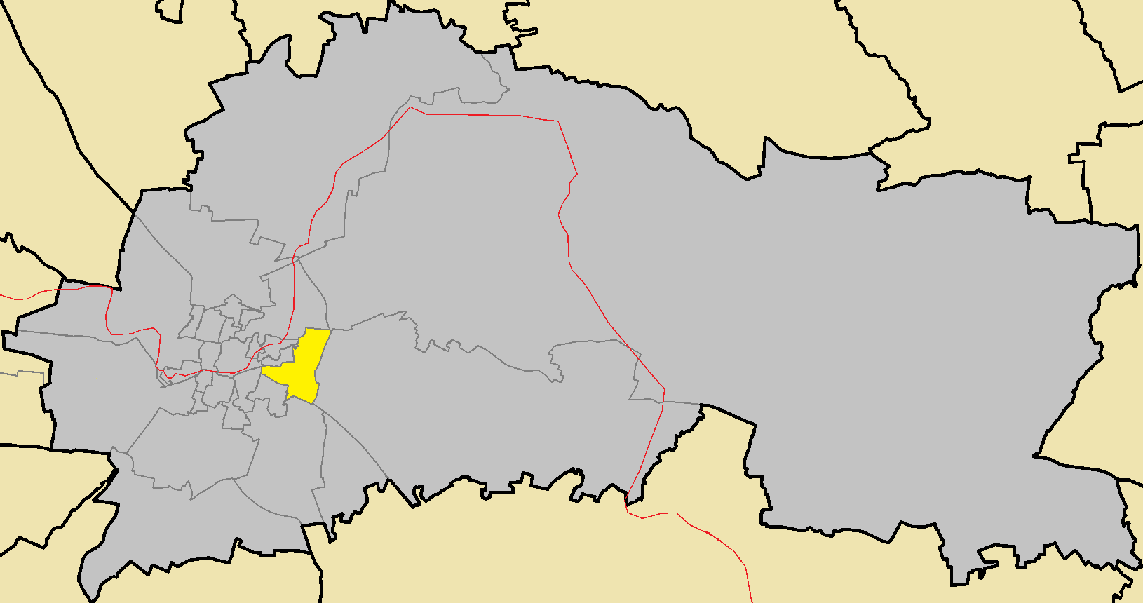 Taht-el-kale, Nicosia in Nicosia Municipality.